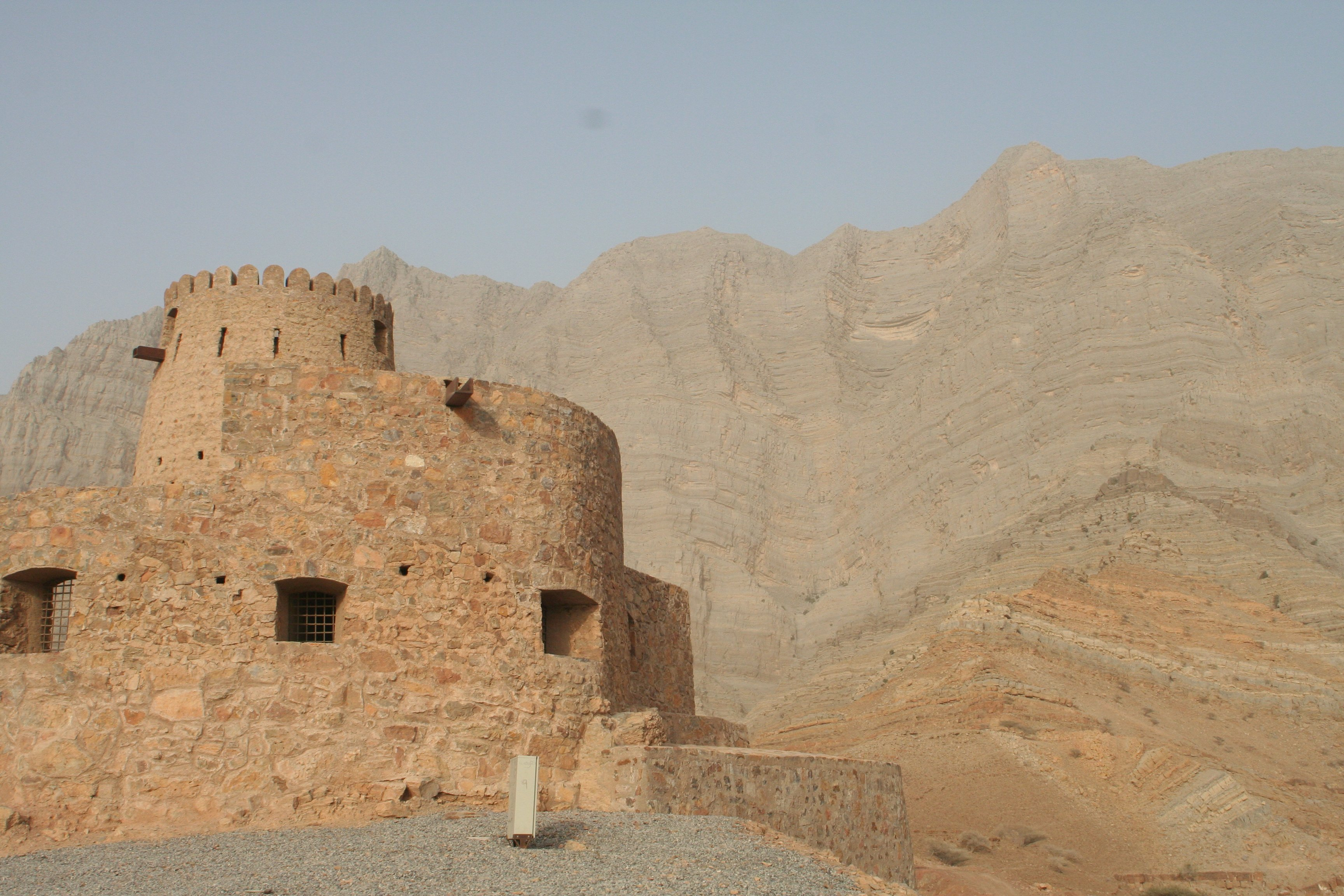 Fort at the top of a small foothill in Tibat, Oman. Lighted at night.